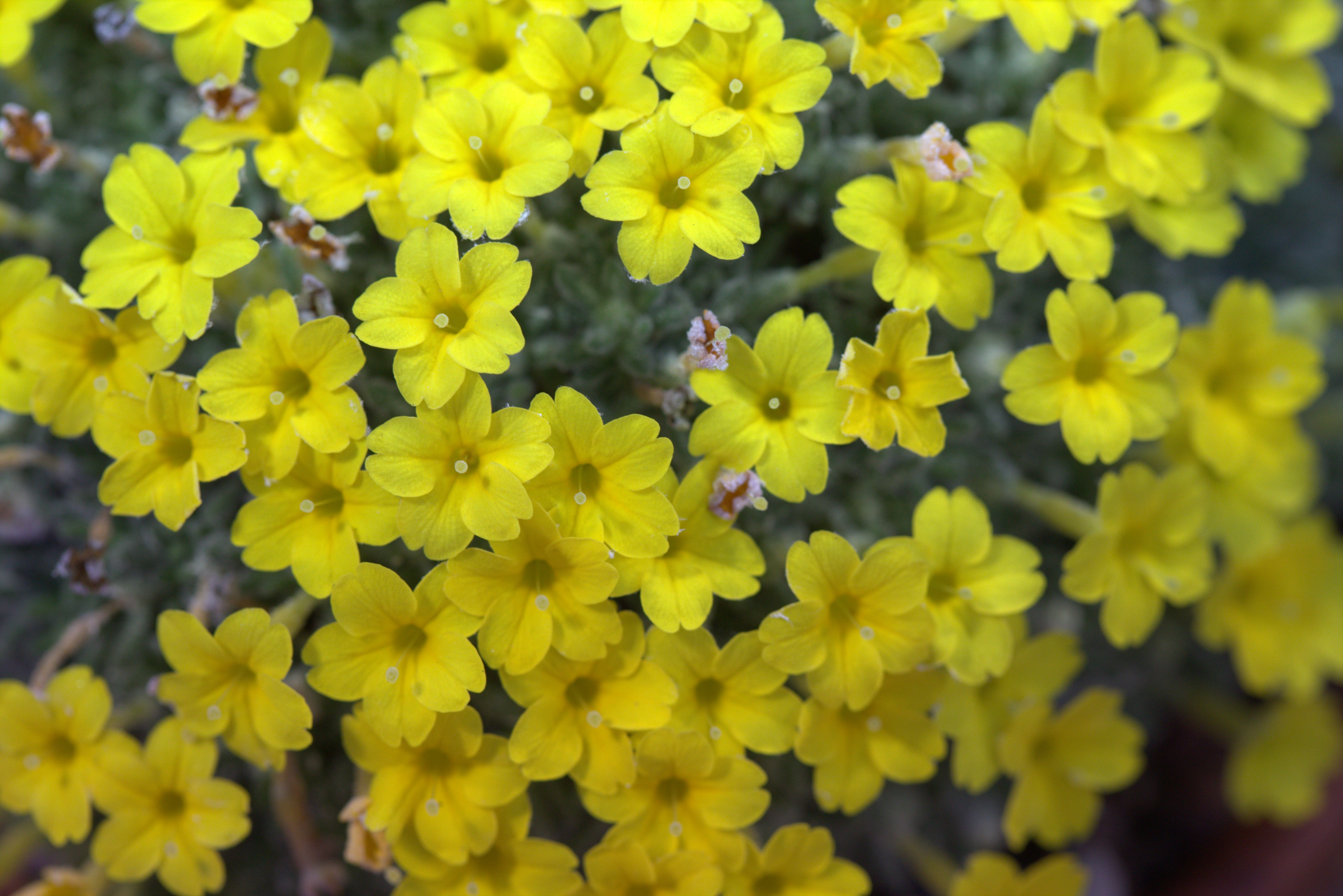 Dionysia aretioides at Gothenburg Botanical Garden in 2015. Plant id: 1998-1857; SL/ZE 35-1